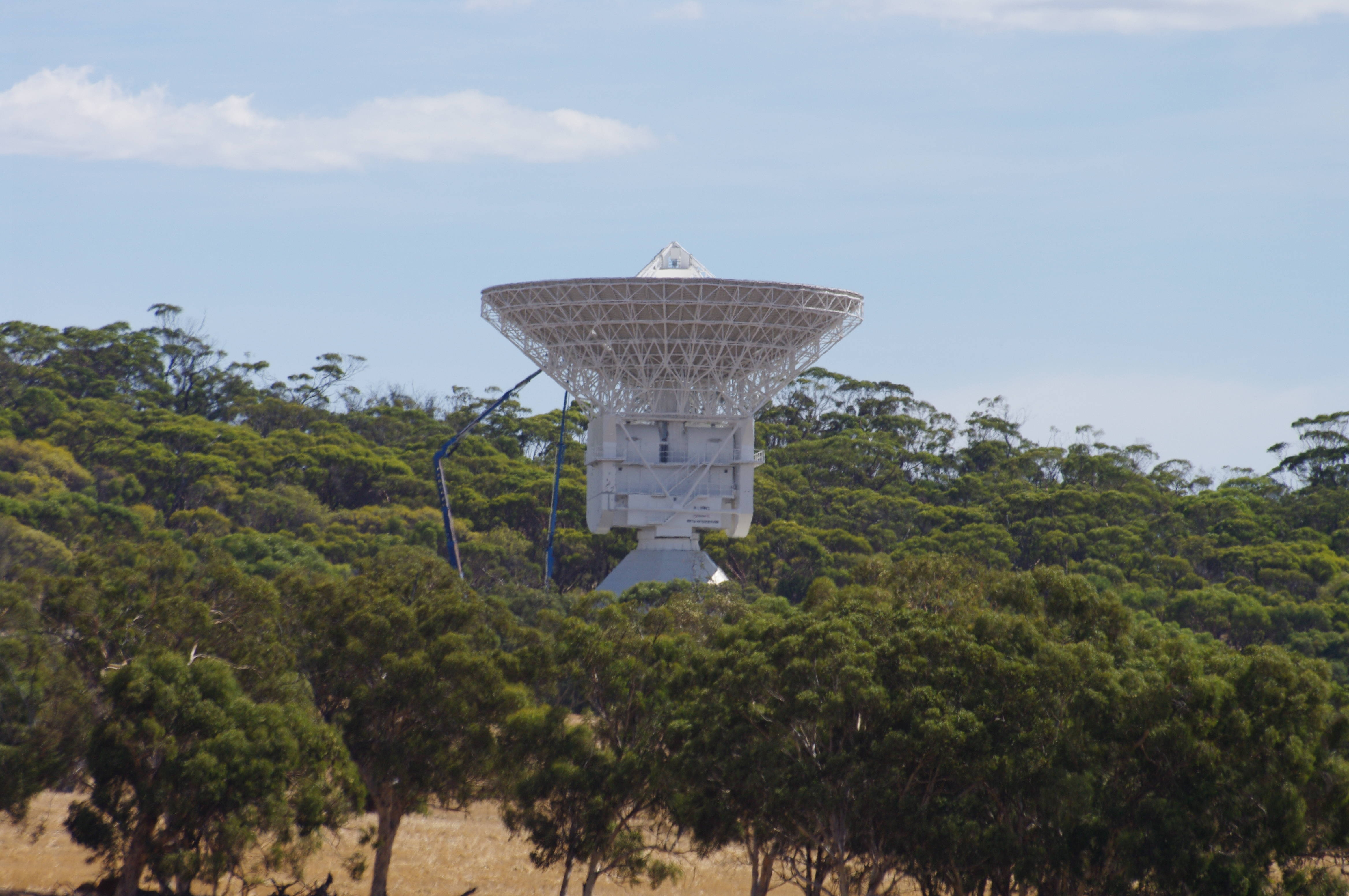 ESTRACK ground station (DSA 1), New Norcia, Western Australia